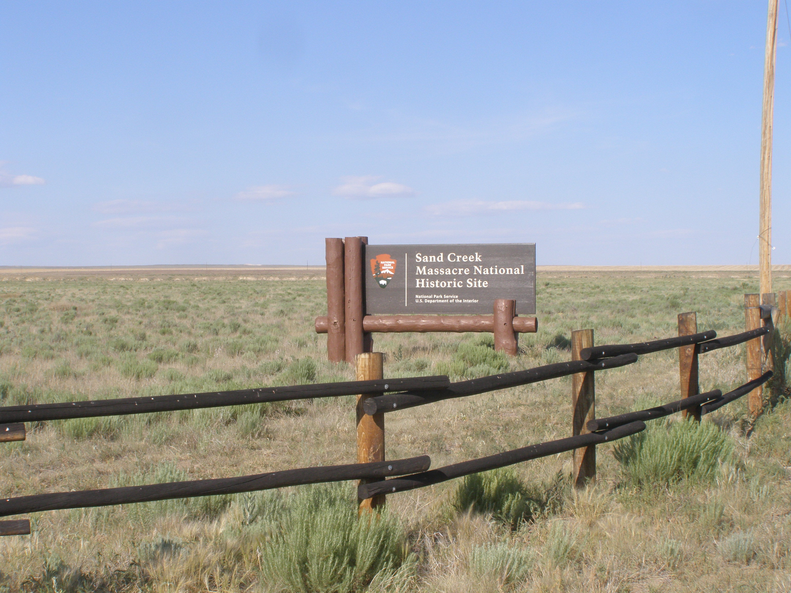 Entrance sign for Sand Creek Massacre NHS